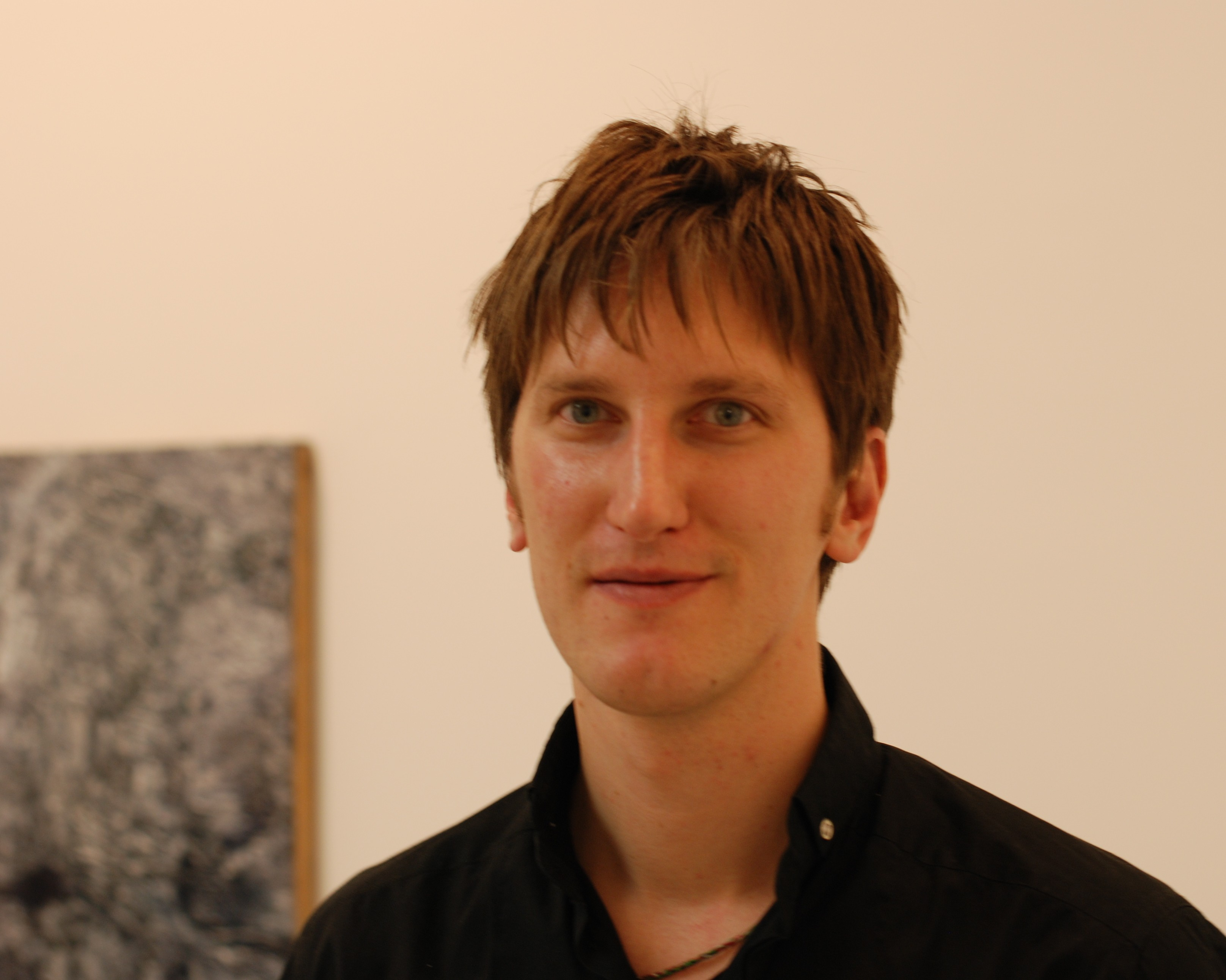 Swedish painter Viktor Rosdahl